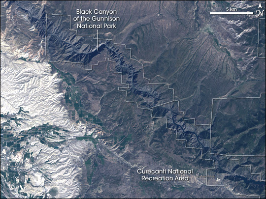 Satellite image of Black Canyon of the Gunnison National Park, Colorado, USA.